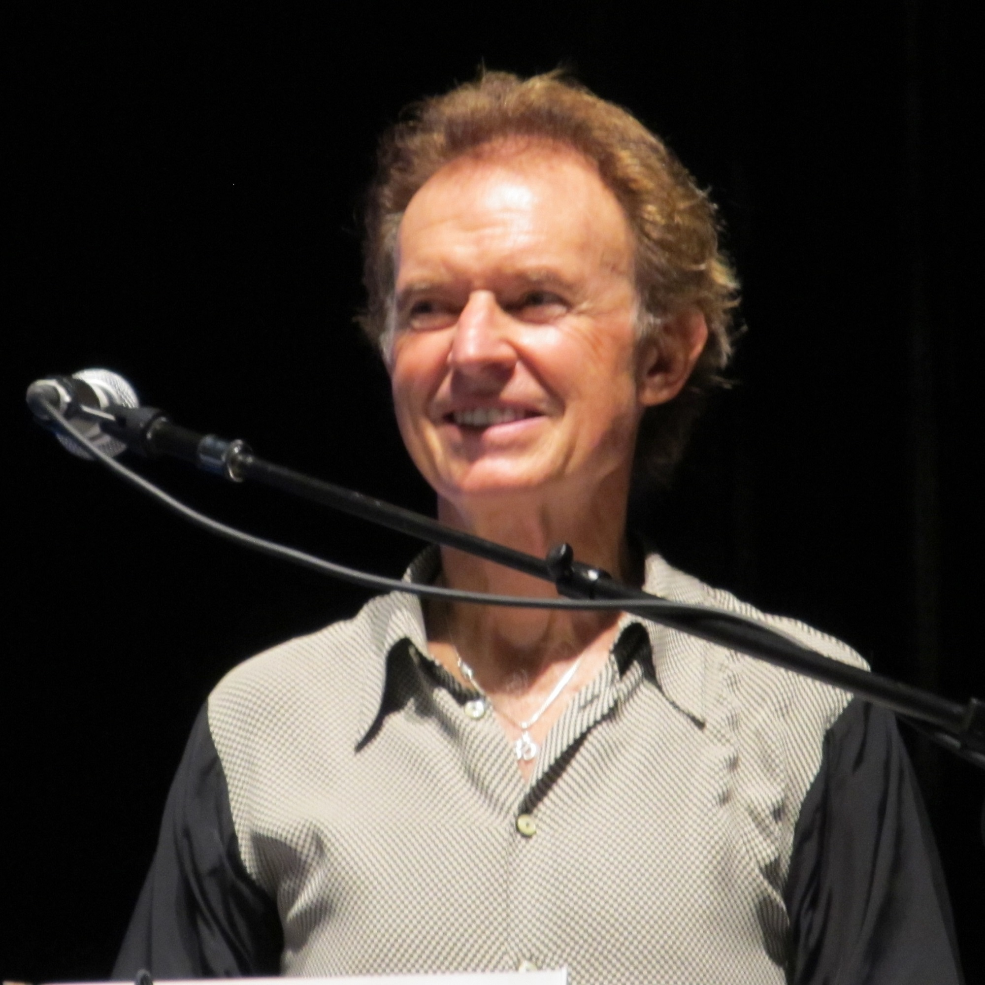 Gary Wright concert in Paris June 26, 2011 : Ringo Starr and his All-Starr Band